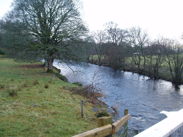 Afon Tryweryn. Taken from the A4212 bridge (Looking west) The Afon Tryweryn flows out of the Llyn Celyn Reservoir and joins the river Dee in Bala